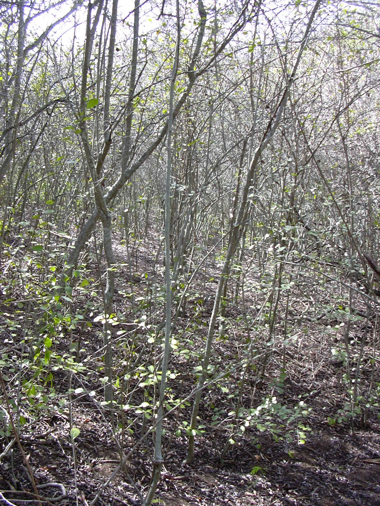 Carmona retusa (habit). Location: Maui, Waihee Pt